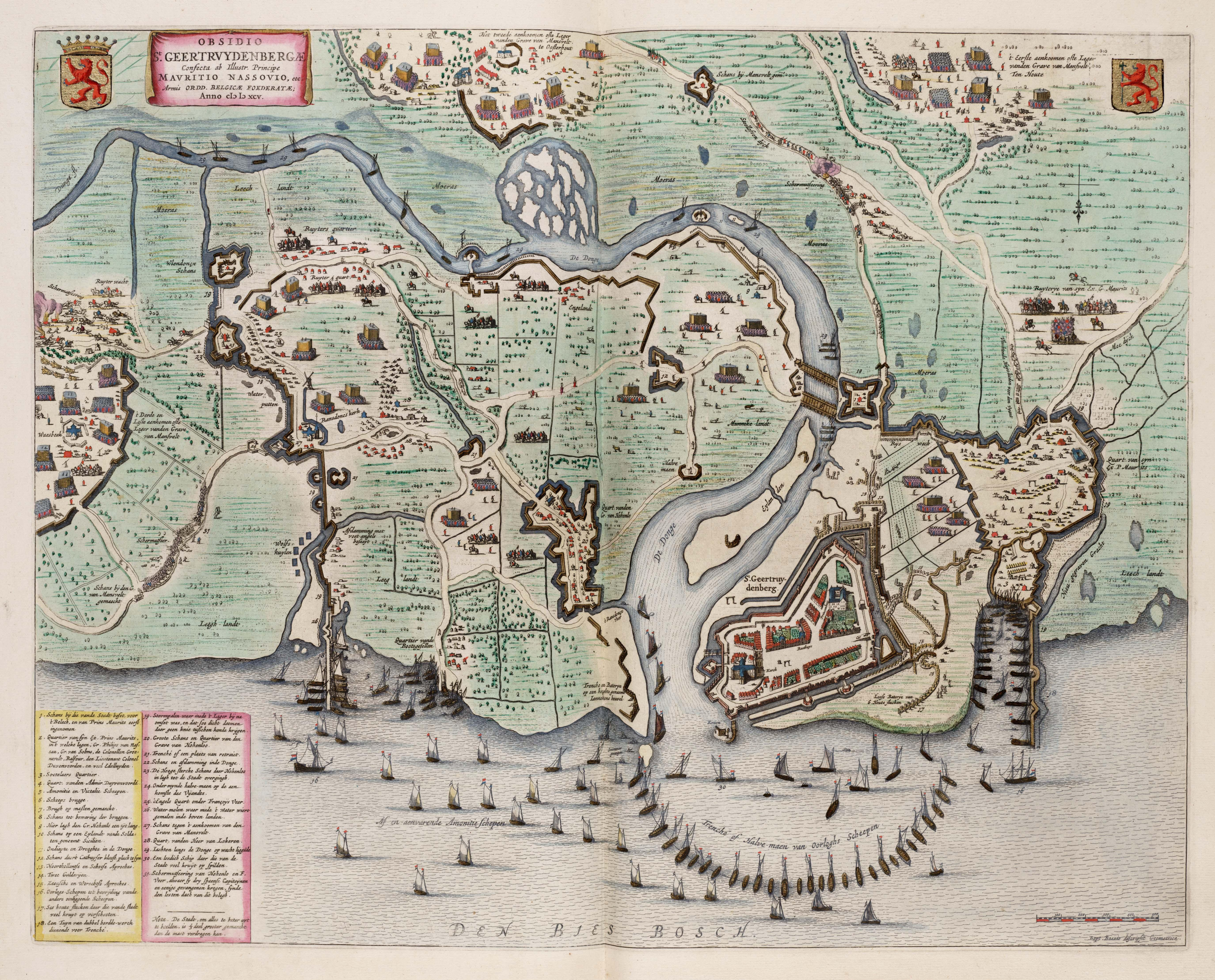 Siege of St. Geertruidenberg by Maurice of Orange in 1595